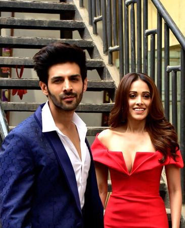 Nushrat Bharucha and Kartik Aaryan snapped on the sets of India’s Next Superstars, 2018